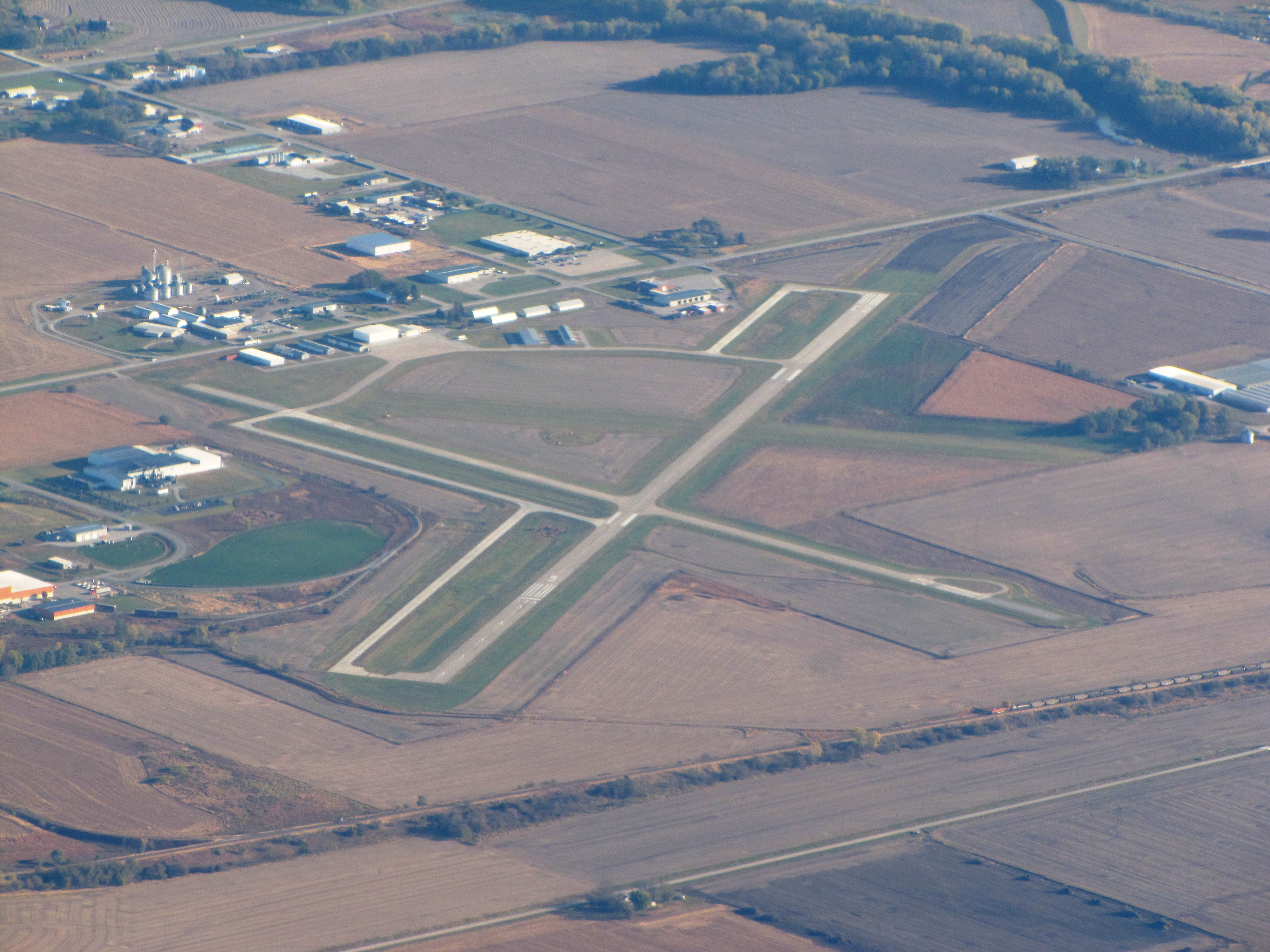 Barkley Regional Airport